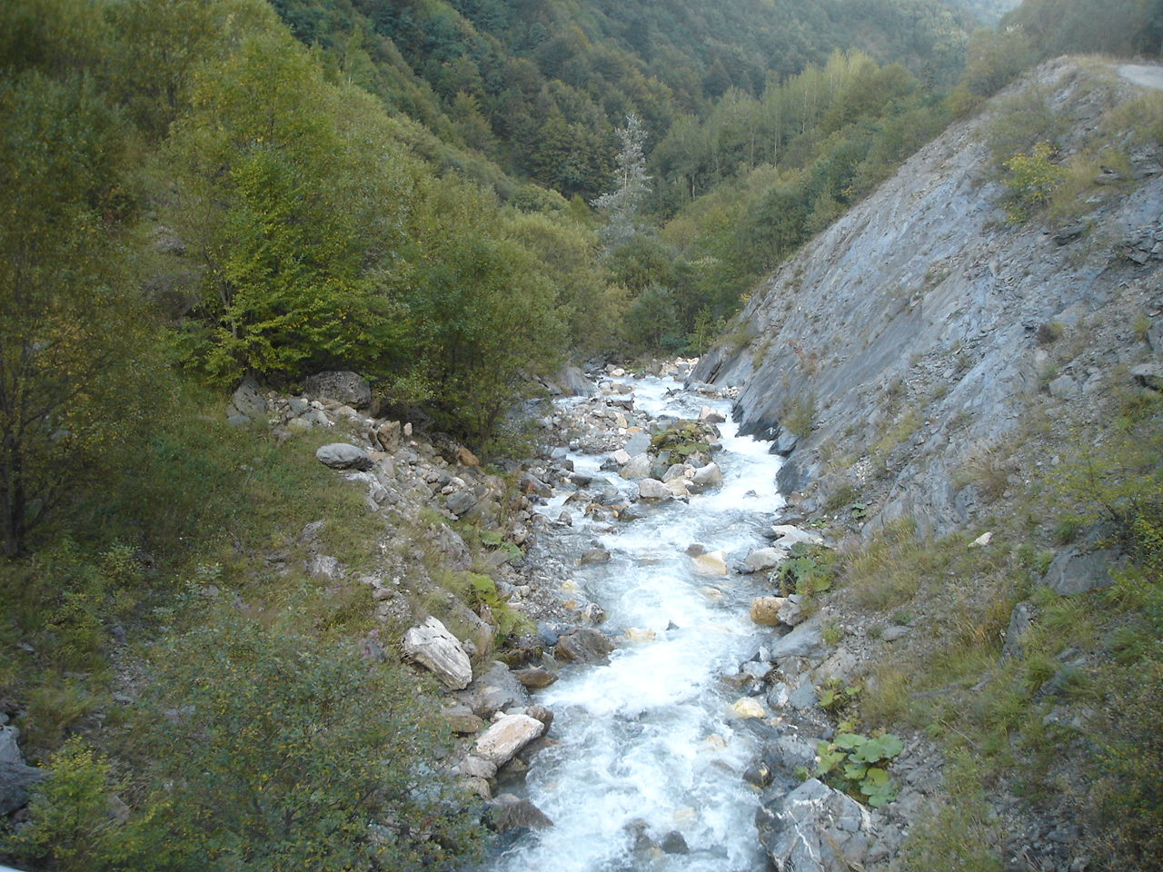 Mazdraca River, on Shar Mountain, Macedonia